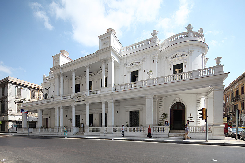 Alexandria Art Center, Alexandria, Egypt. Established as Bourse Toussoun in the 1890s and used as Mohamed Ali Club.